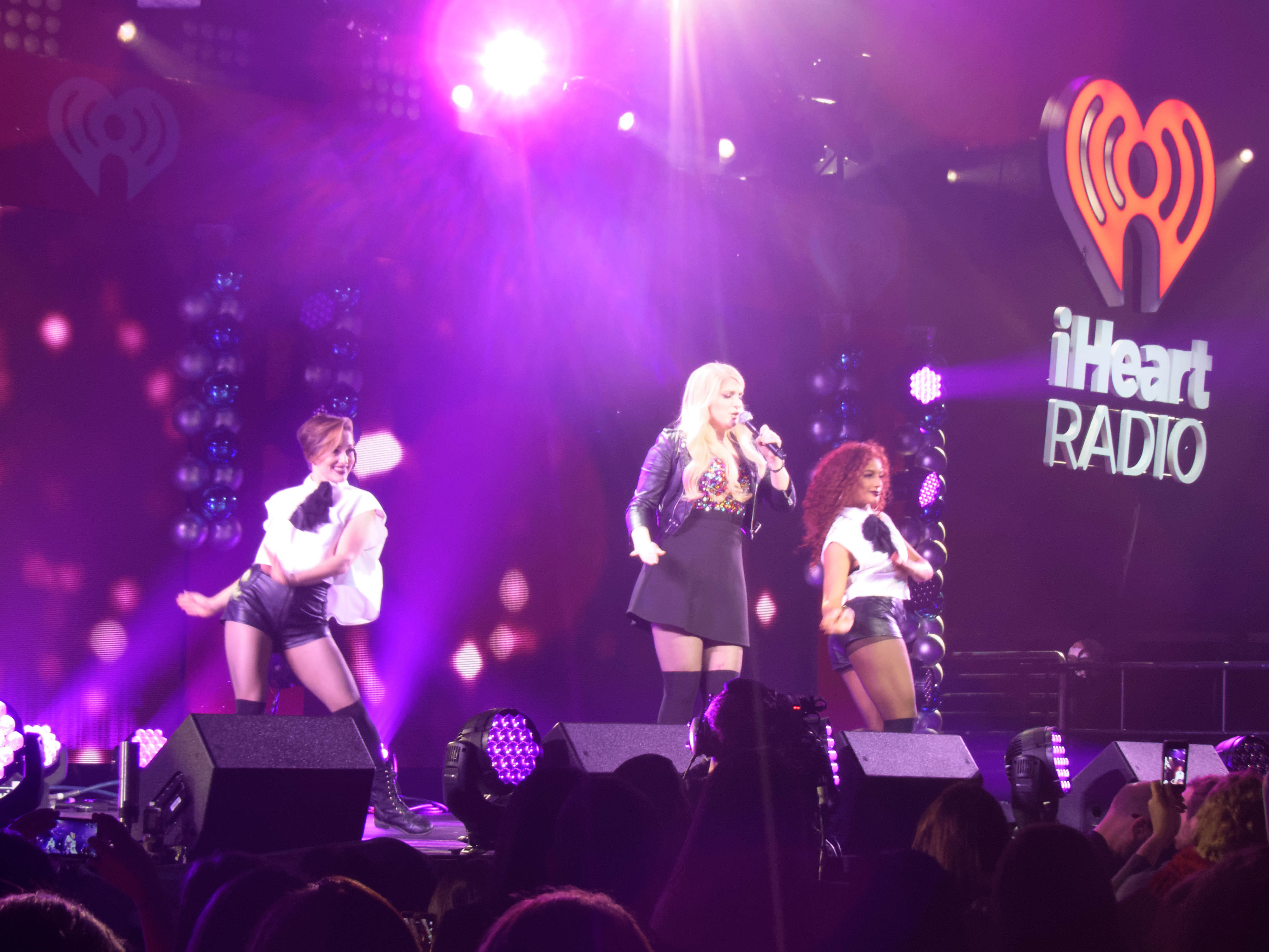 Q102 Philly Jingle Ball 2014